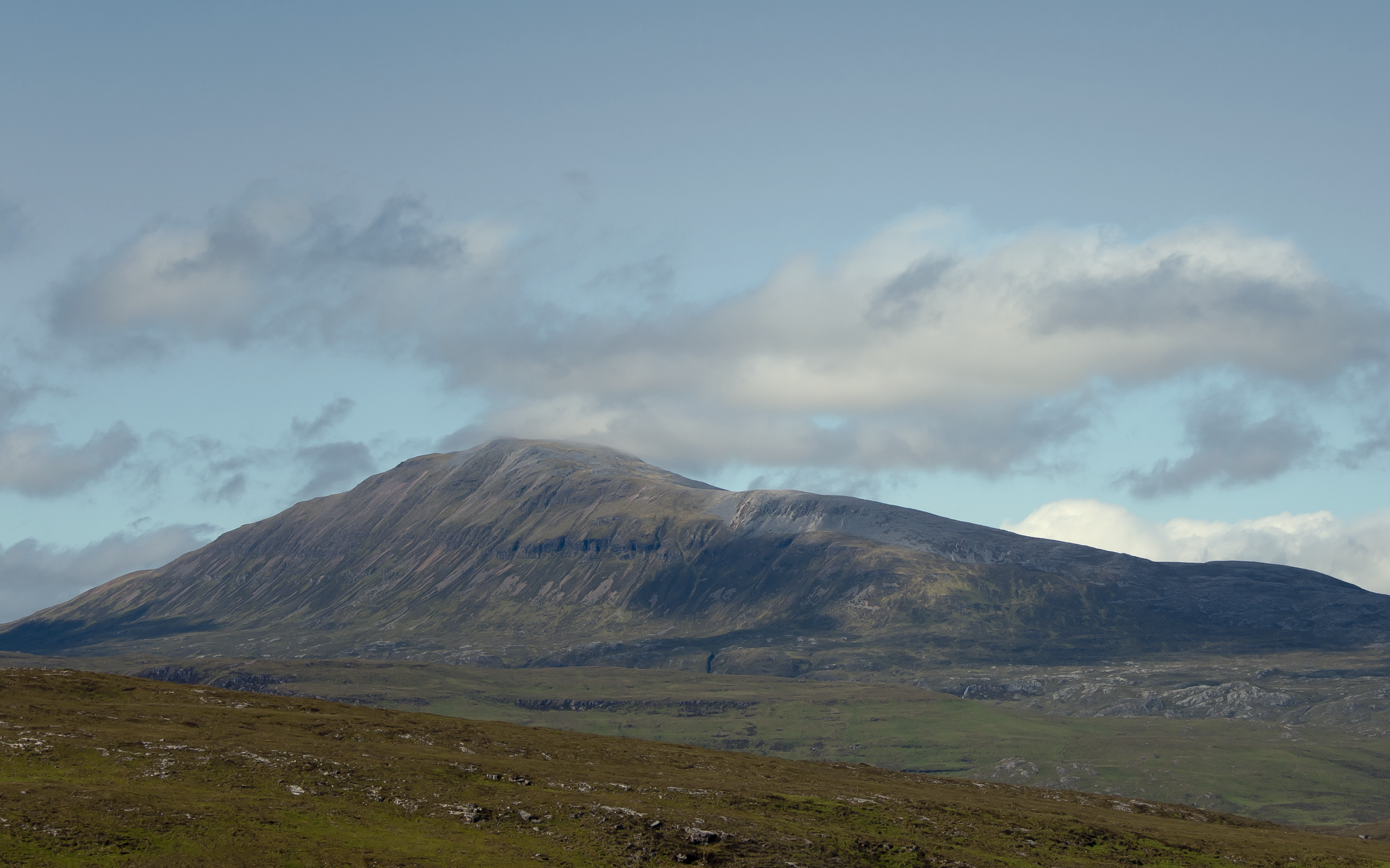 Mountain Canisp, Sutherland, Scotland from Knockan Crag